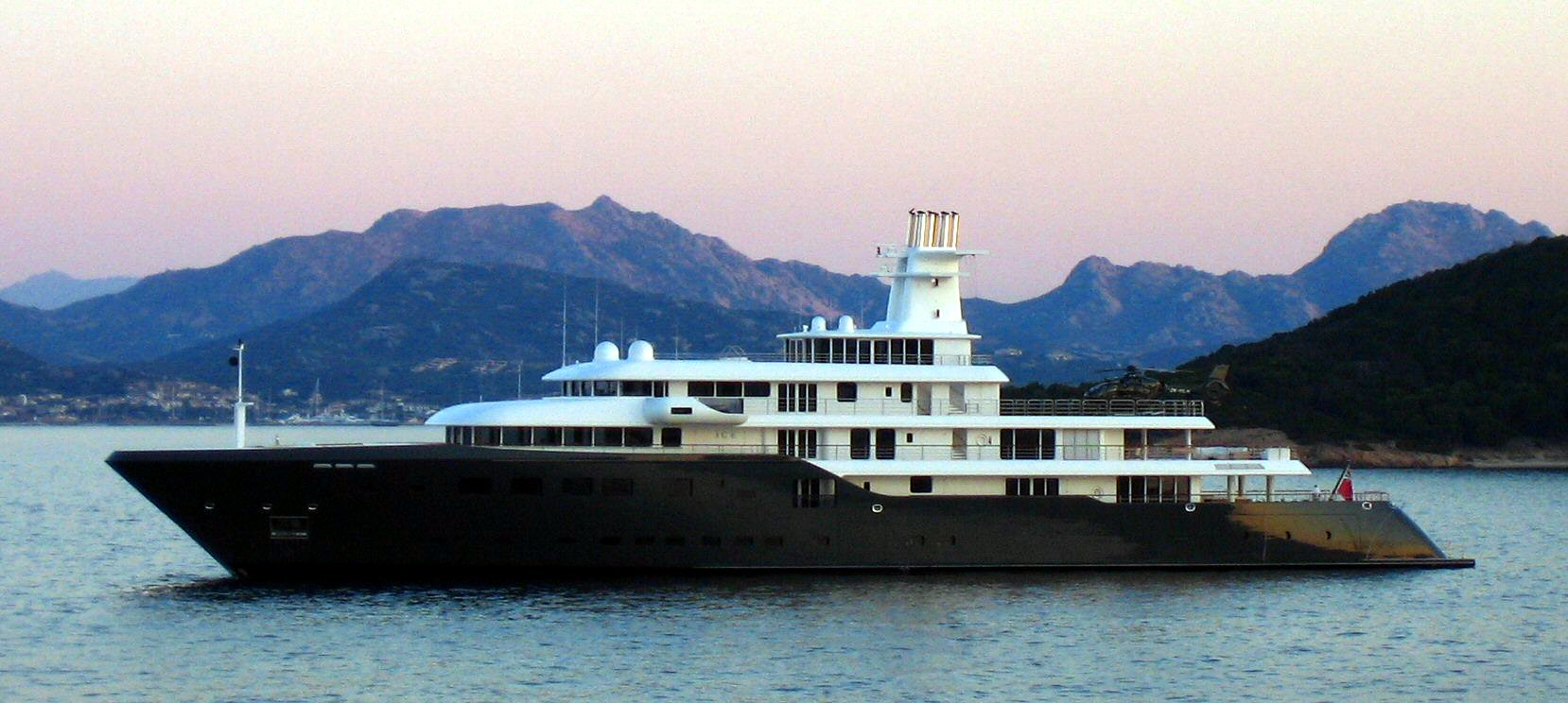 Ice Yacht